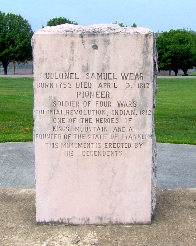 Monument marking the grave of Colonel Samuel Wear, the first permanent Euro-American settler in what is now Pigeon Forge, Tennessee. The monument is located in Pigeon Forge City Park, near the junction of US-441 and Wears Valley Road (US-321). Wear's Fort was located in the vicinity.